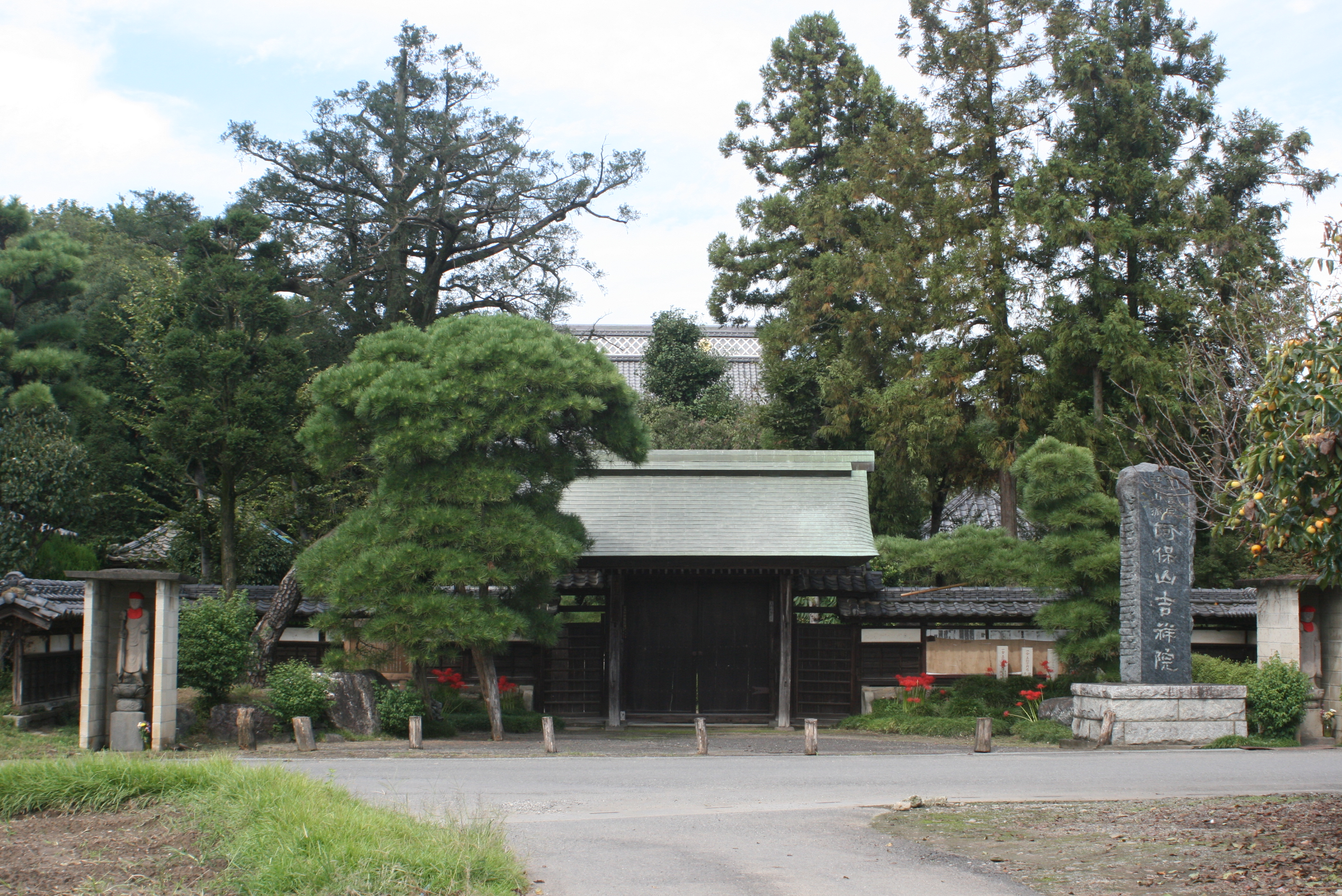 Kichijouin Temple in Kamisato, Saitama, Japan